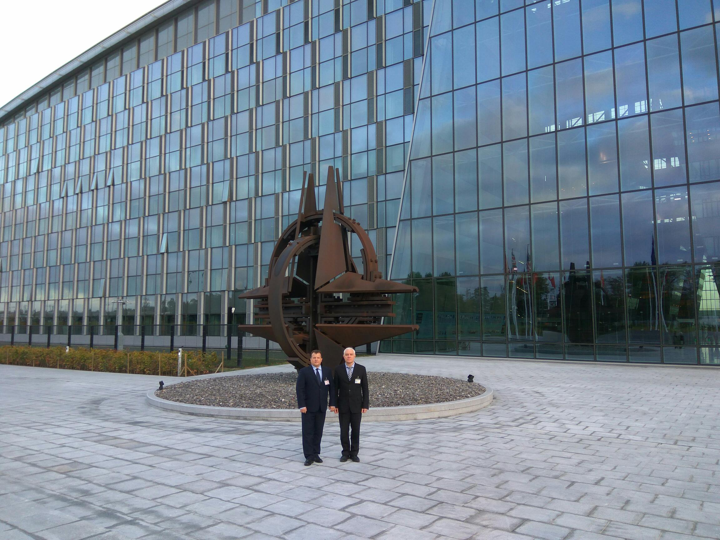 NATO Star by new NATO HQ in Brussels, oct. 2018